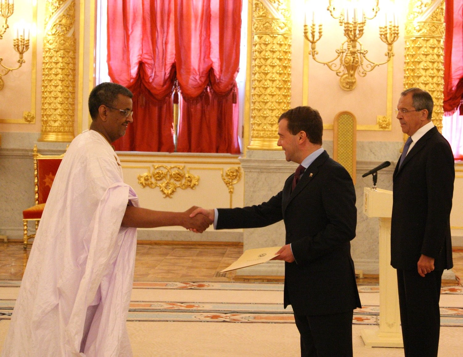 Presentation by foreign ambassadors of their letters of credence. Dmitry Medvedev receives a letter of credence from Ambassador of the Islamic Republic of Mauritania Sidi Mohammed Uld Taleb Amar.